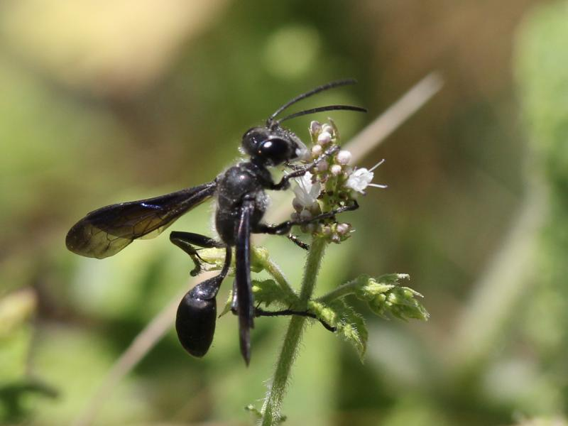 Isodontia mexicana (Sphecidae), Provence-Alpes-Côte d'Azur, France